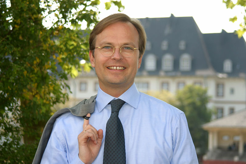 Picture of Thomas Rachel, Member of the German Bundestag (CDU/CSU fraction)